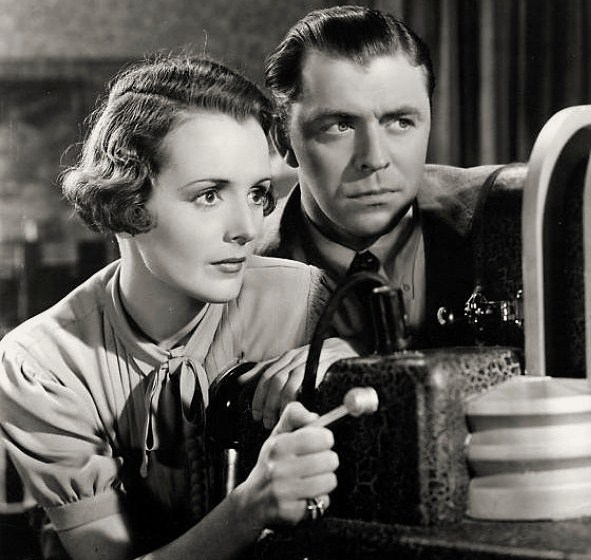 Mary Astor and Lyle Talbot in Trapped by Television (1936) - cropped screenshot